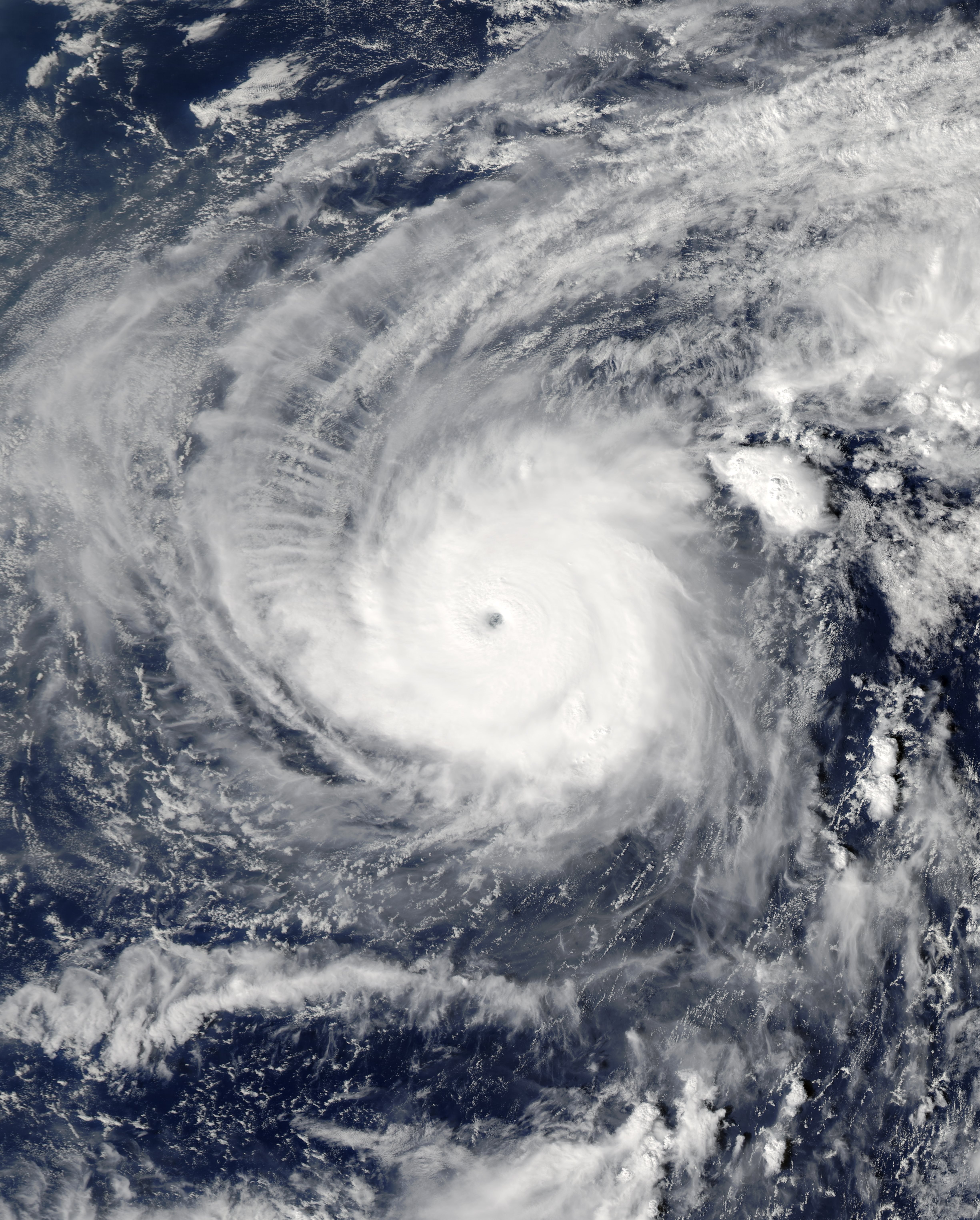 Typhoon Halong after peaking in intensity on November 6, 2019.